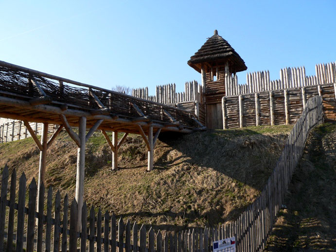 Description: Archaeological park Podobora in Chotěbuz (Kocobędz), Czech Republic. Date: 8 April, 2006 Camera: Panasonic DMC-FZ20 Author: Czesil (my friend)